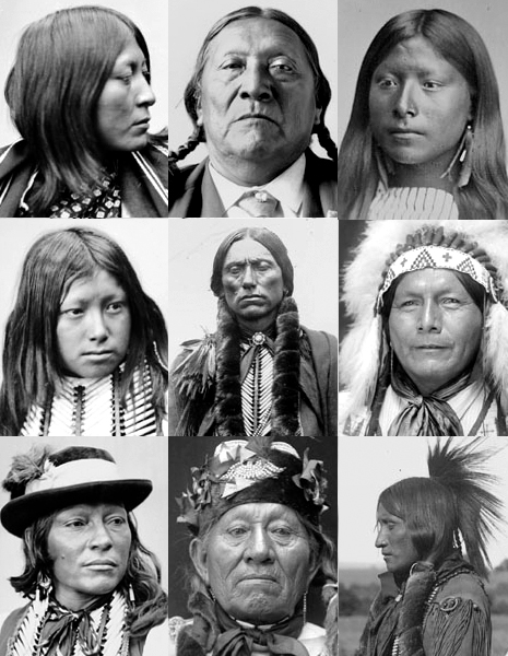 Collage of Comanche from various public domain sources.